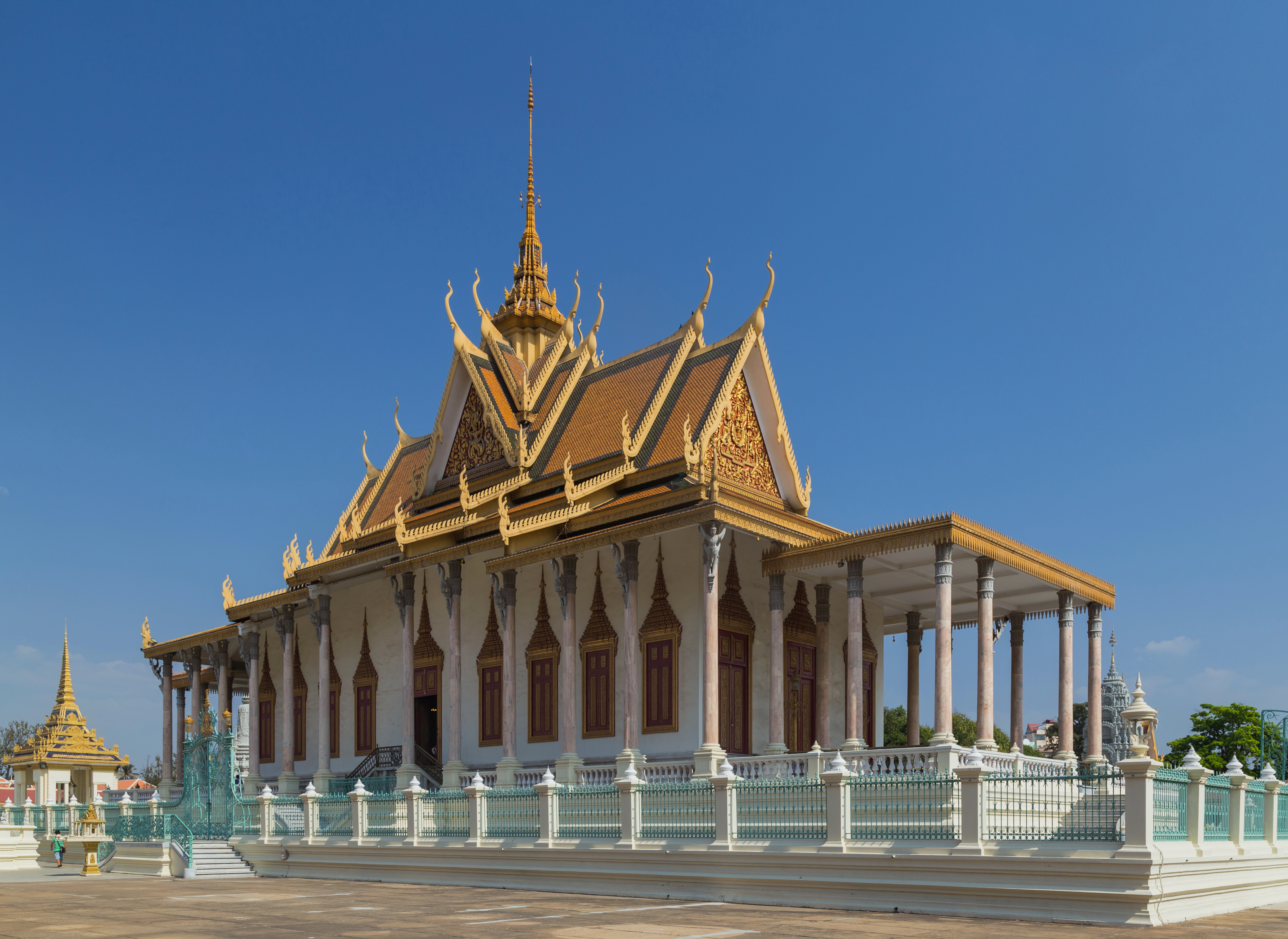 Silver Pagoda. Royal Palace. Phnom Penh, Cambodia.